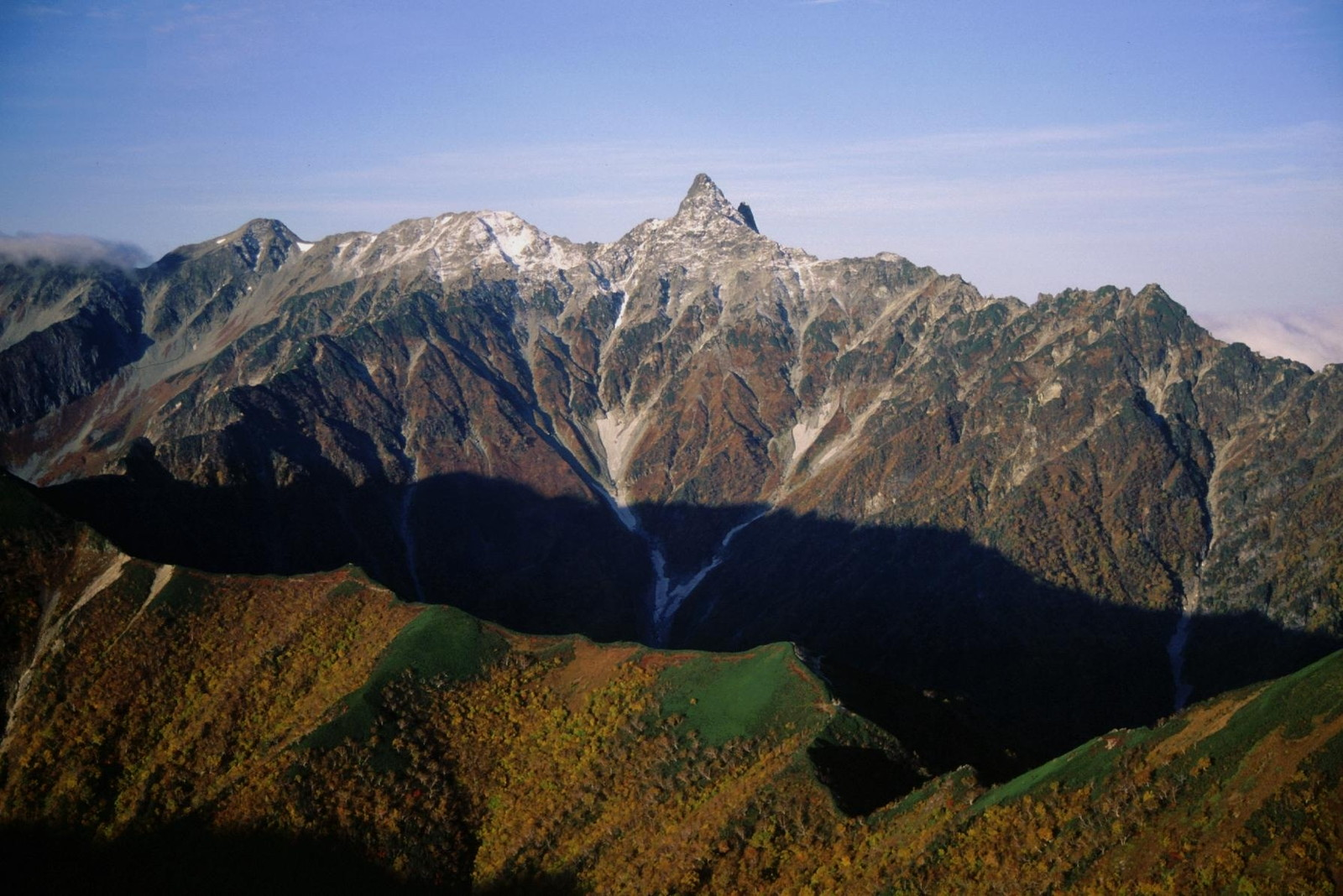 Mount Yari from Mount Otensho